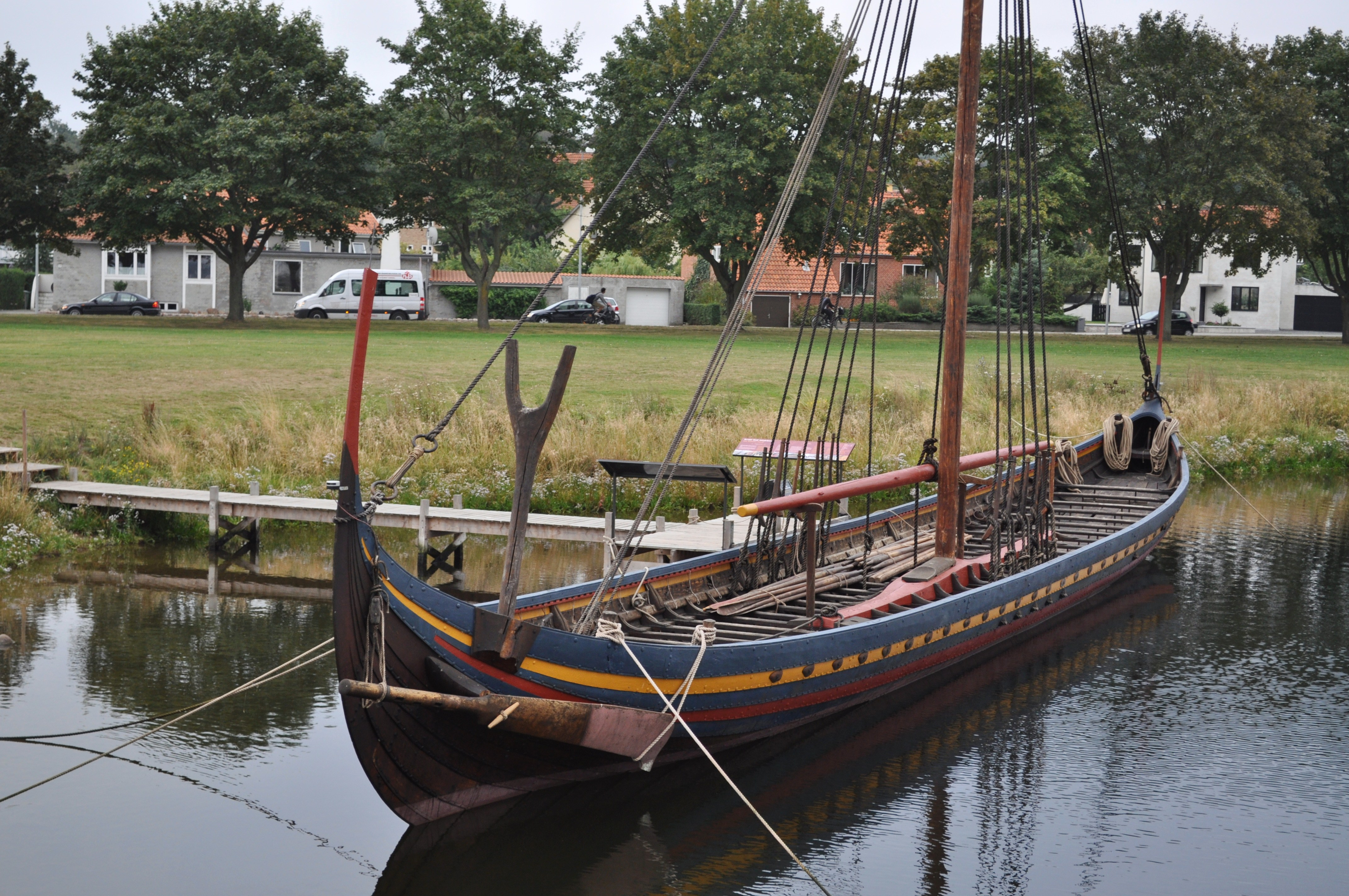 Havhingsten-Roskilde Viking ship museum